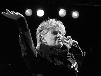 Gitte Hænning singin in Aarhus Aenmark with Aarhus Jazz Orchestra